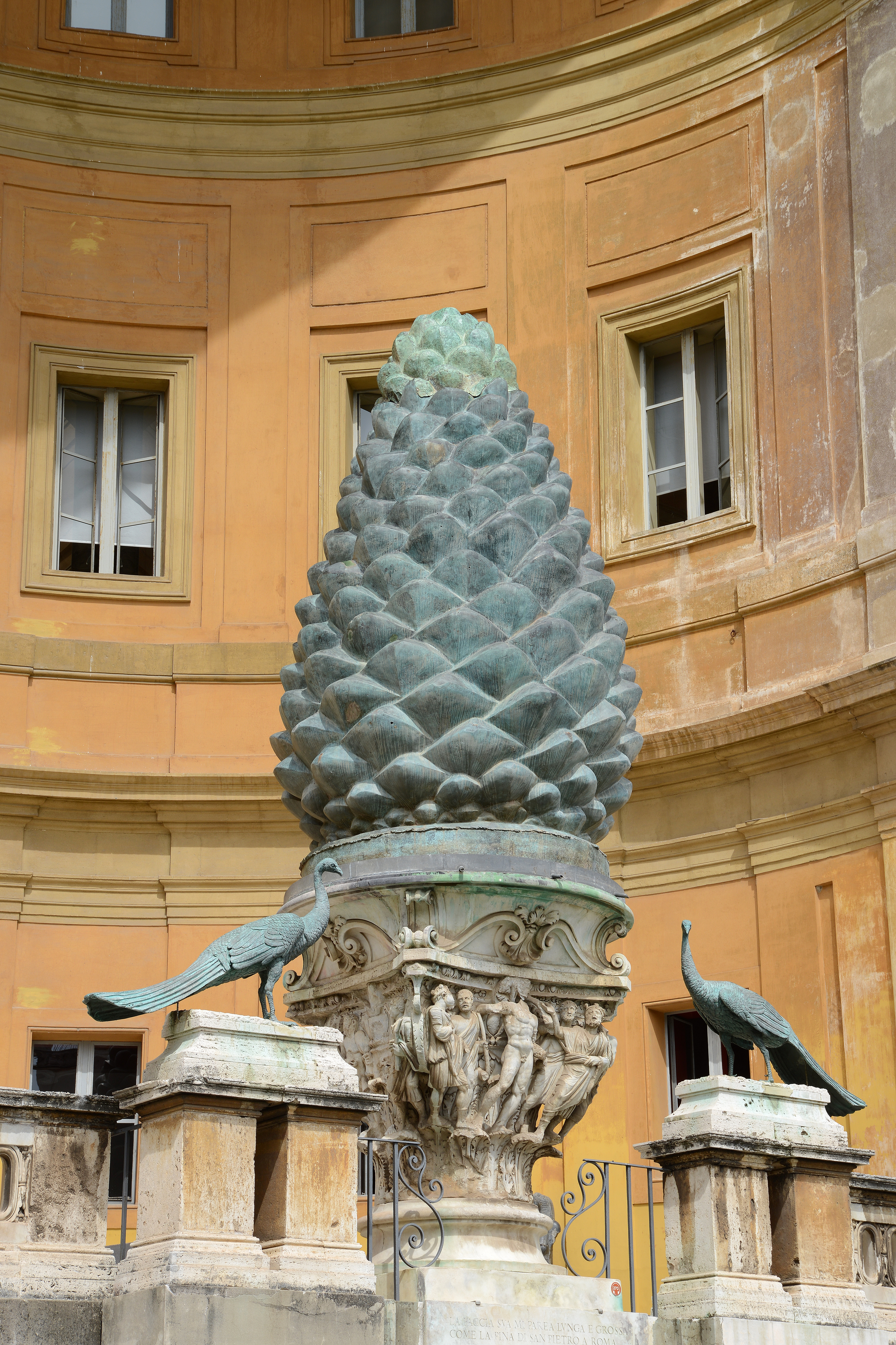 The Pinecone in the Belvedere Courtyard. Vatican City, Rome.